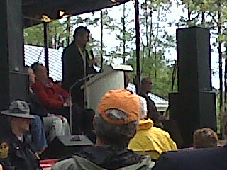 Photographer: Nathaniel Webb